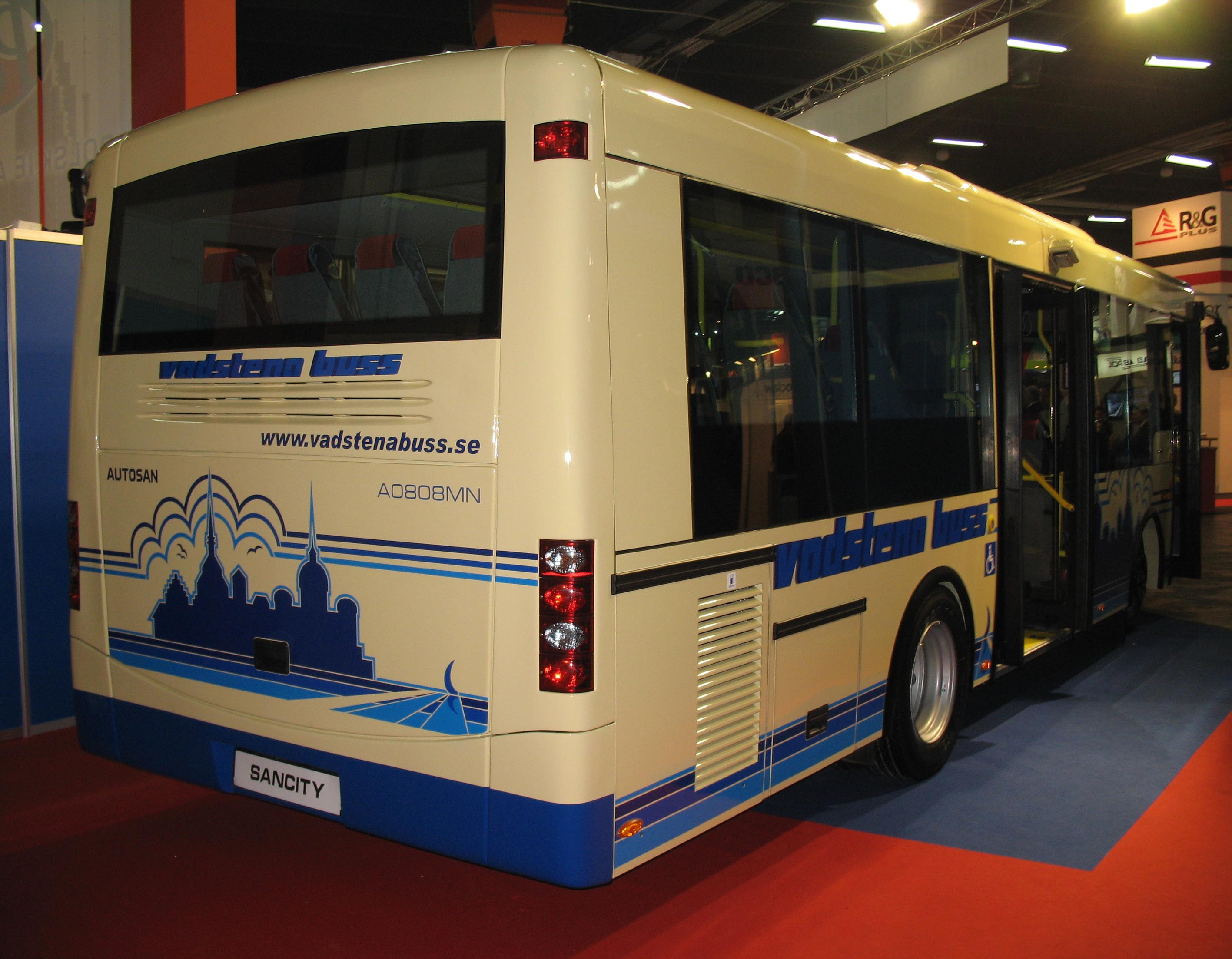 Autosan A0808MN.04.01 Sancity bus in Kielce, Poland. Built 2008. Transexpo 2008. For Vadstena Buss operator in Vadstena, Sweden.